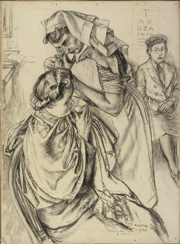 Queen Alexandra's Royal Naval Nursing Service - syringing the ear of a Wrns rating image: a Wren rating sitting side on with a cape tied round her neck and supporting a small dish on her left shoulder, is having her ear syringed by a QARNNS nurse, who stands next to her with the syringe in her ear. Another Wren looks on, sitting against the wall in the right background.